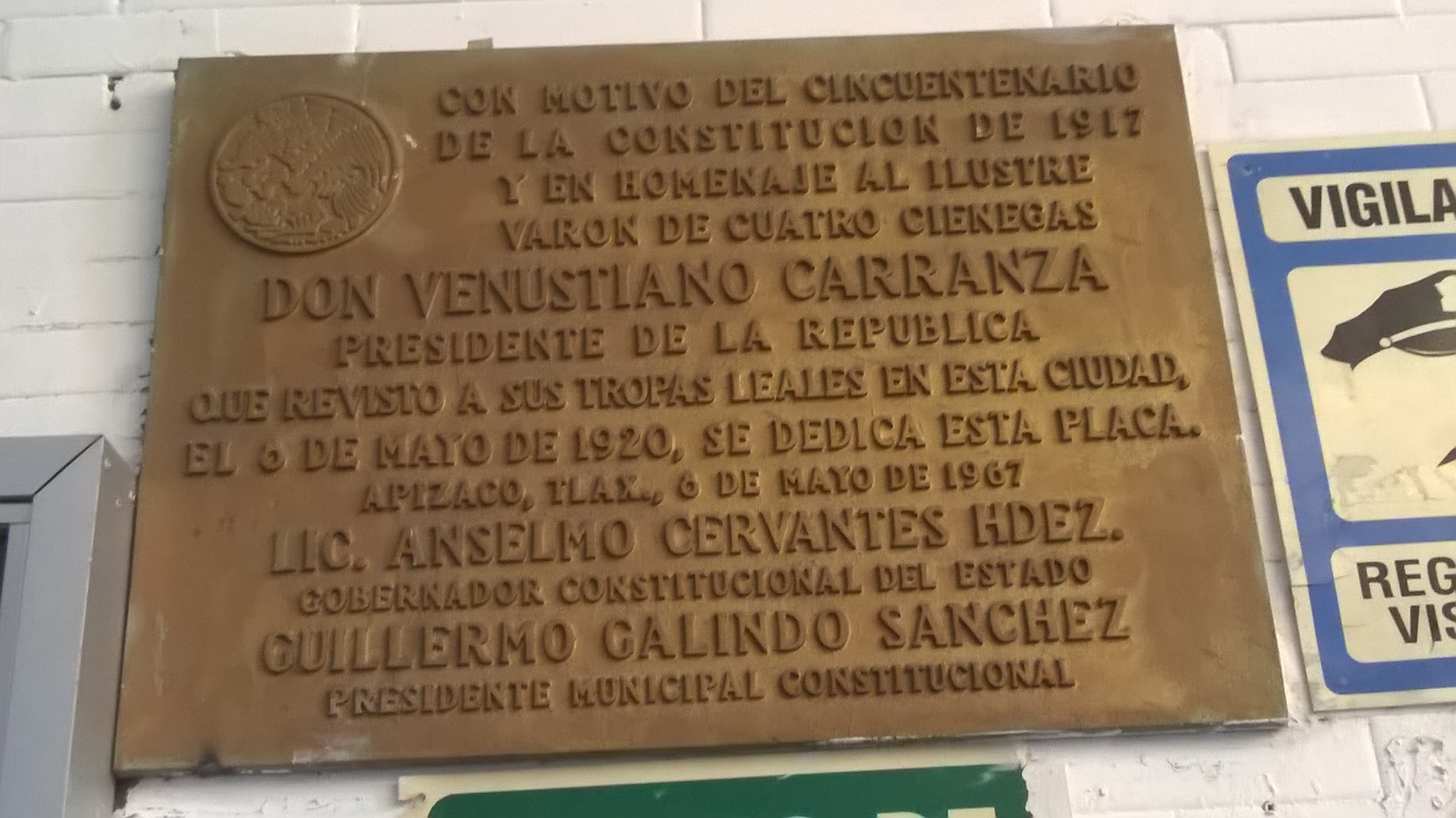 Plaque in the ancient train station in Apizaco, Tlaxcala, México